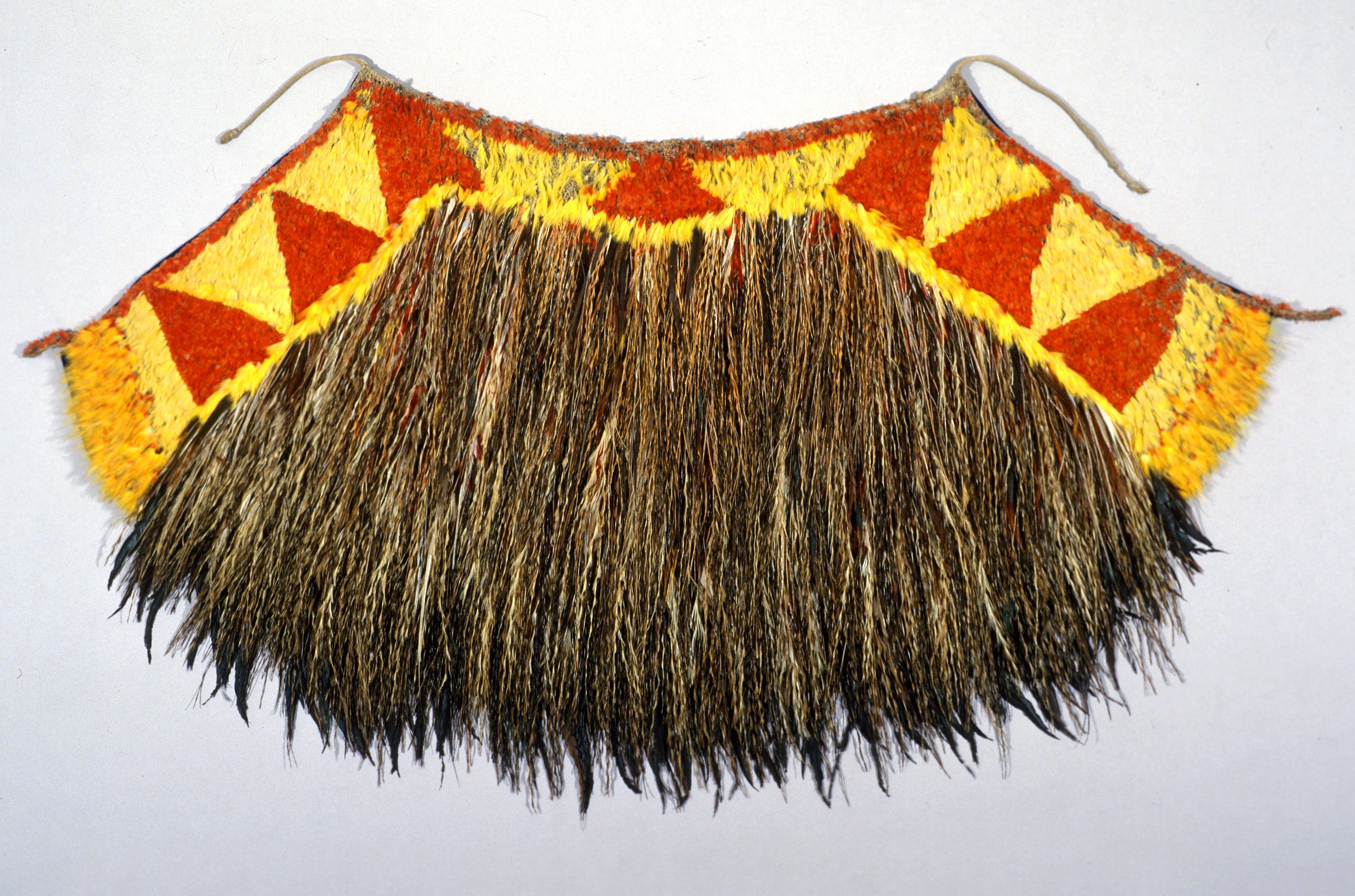 H000104 Cape of netted fibre and feathers, collected from Hawaii in 1778 during Cook's third voyage to the Pacific. This one is unusual in its use of the long tail feathers of red and white tropical birds and black cock feathers. At least 30 feathered cloaks and capes were collected. On the occasion of Cook's official welcome by Kalani'opu'u, six or seven cloaks and other feather items were presented to him.